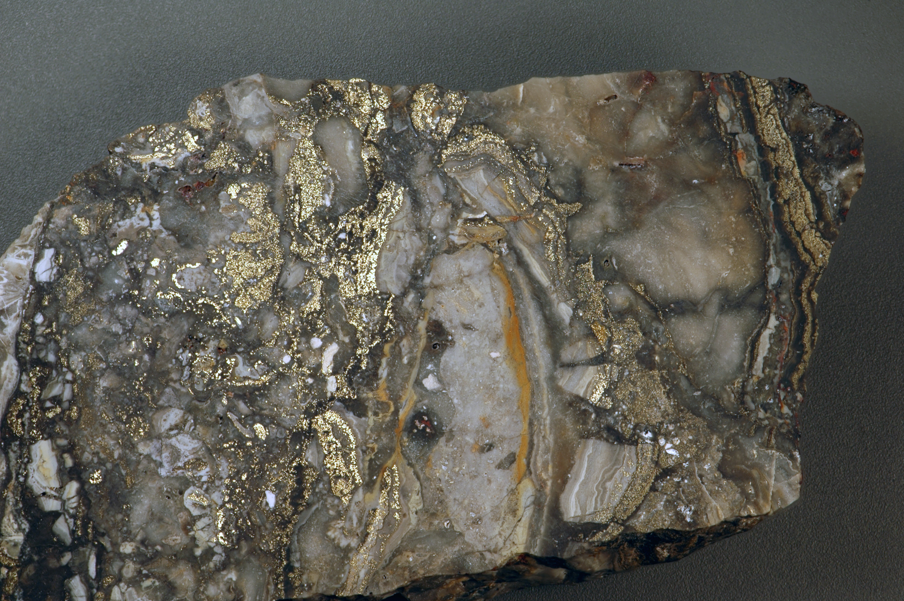 High-grade gold ore (bonanza-grade gold ore) (field of view ~10.5 cm across) from the Sleeper Open-Pit Mine (section 21, T40N, R35E), eastern side of Sod House Road, south of Rt. 140, northwestern margin of the Slumbering Hills, eastern margin of Desert Valley, northwest of the town of Winnemucca, central Humboldt County, northern Nevada, USA (41° 20’ 24” North, 118° 02” 58” West). Geology - auriferous quartz-adularia rhyolite (some consider this rock to be a latite). Native gold (Au) occurs in this rock as colloform bands, partially replaces breccia clasts, and also disseminated in the matrix. Published research indicates that Sleeper Mine rocks represent an ancient epithermal gold deposit (hot springs gold deposit), formed by volcanism during Basin & Range extensional tectonics. Age - the Sleeper Rhyolite dates to 16.3-16.5 million years (latest Early Miocene), and the gold mineralization dates to about 14.3-15.8 million years (during the early Middle Miocene).